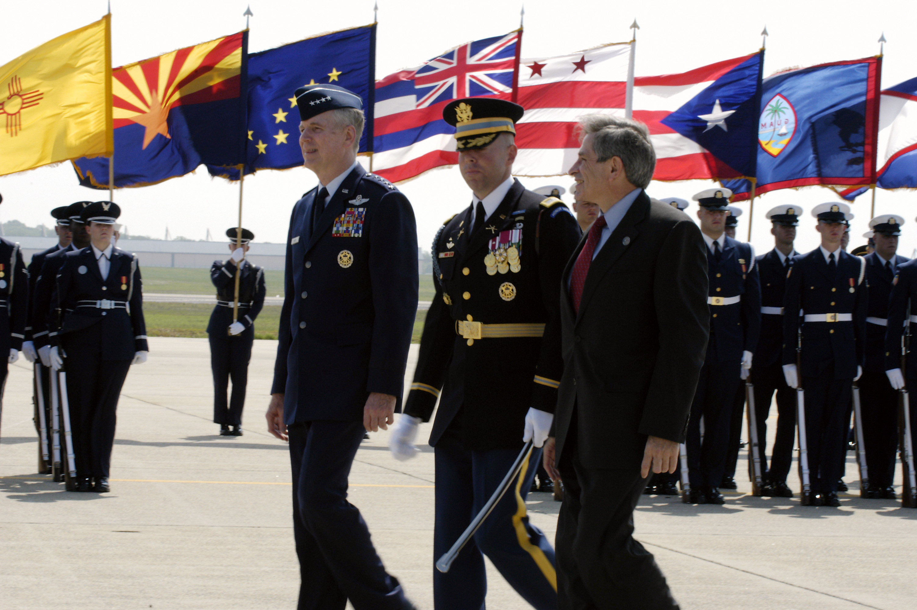 The Third U.S. Infantry Regimental Commander Col. Charles Taylor, U.S. Army, (center) escorts Chairman of the Joint Chiefs of Staff Gen. Richard B. Myers (left) and Deputy Secretary of Defense Paul Wolfowitz (right) during the inspection of troops. The ceremony marked the opening of the annual Armed Forces Open House and Air Show at Andrews Air Force Base, Md., on May 14, 2004.